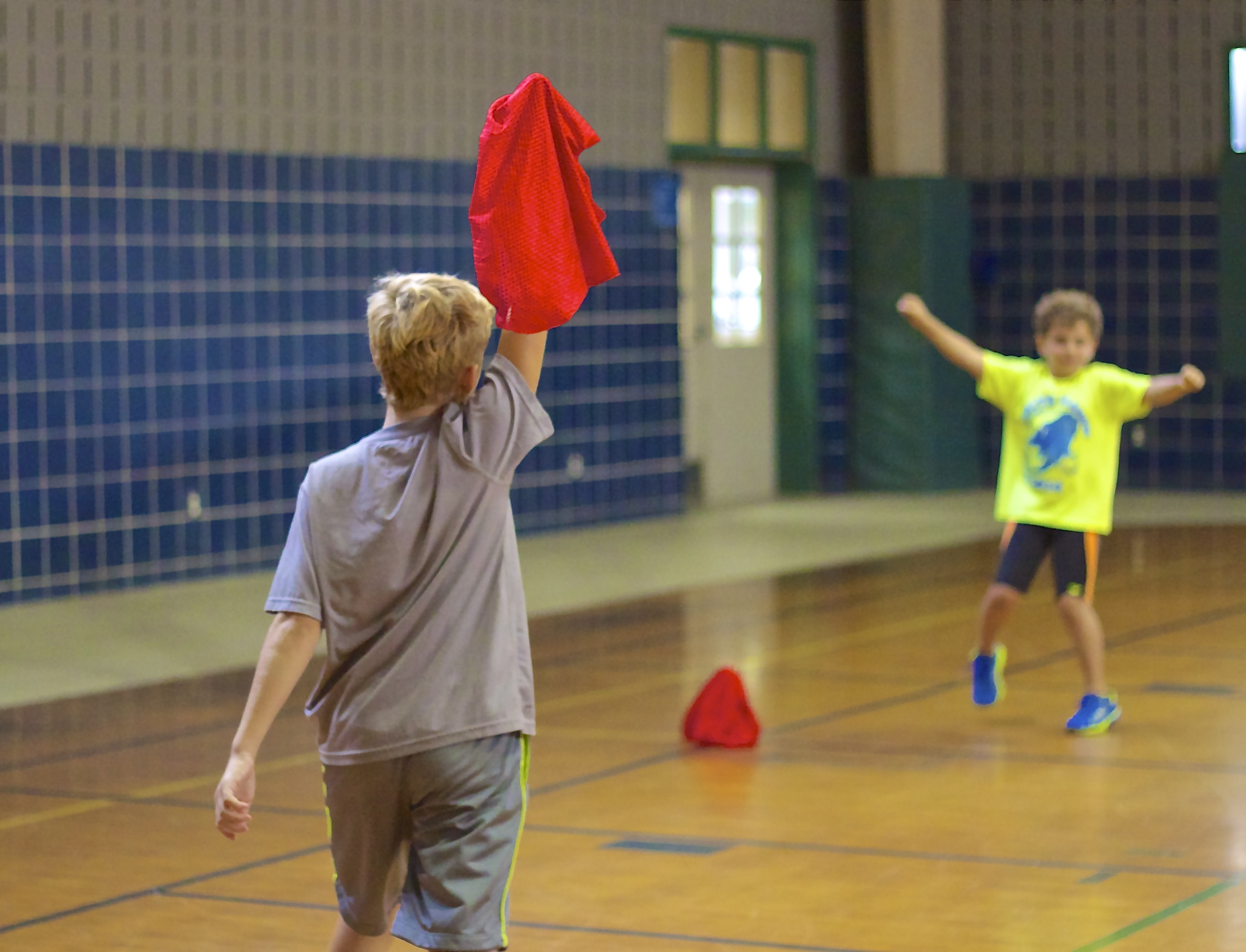 Taken at the Bellaire Recreation Center's All Sports Camp, August 2014.